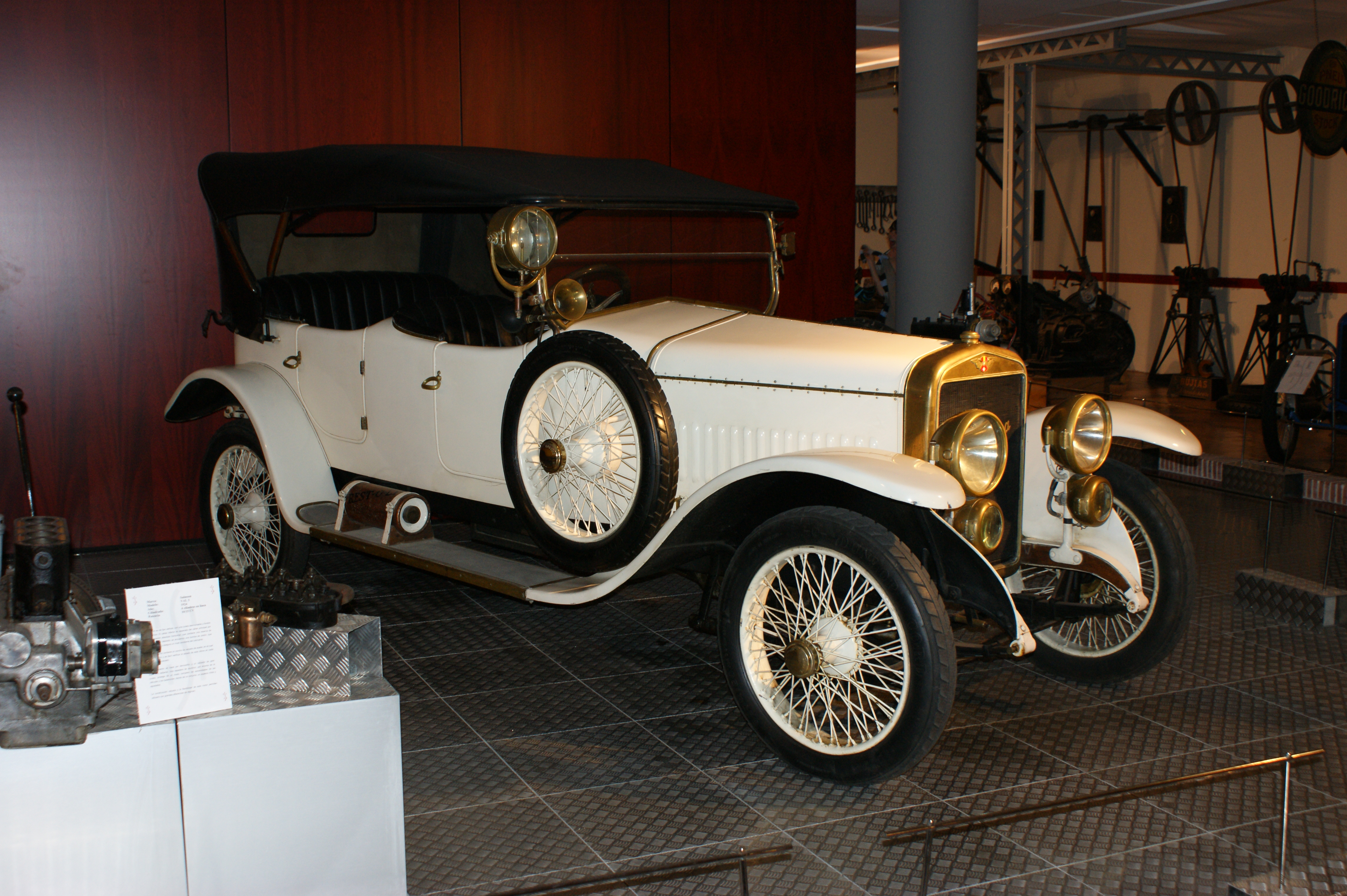 1922 Hispano-Suiza Tipo-30 at the Salamanca Motor Museum, 04/08.